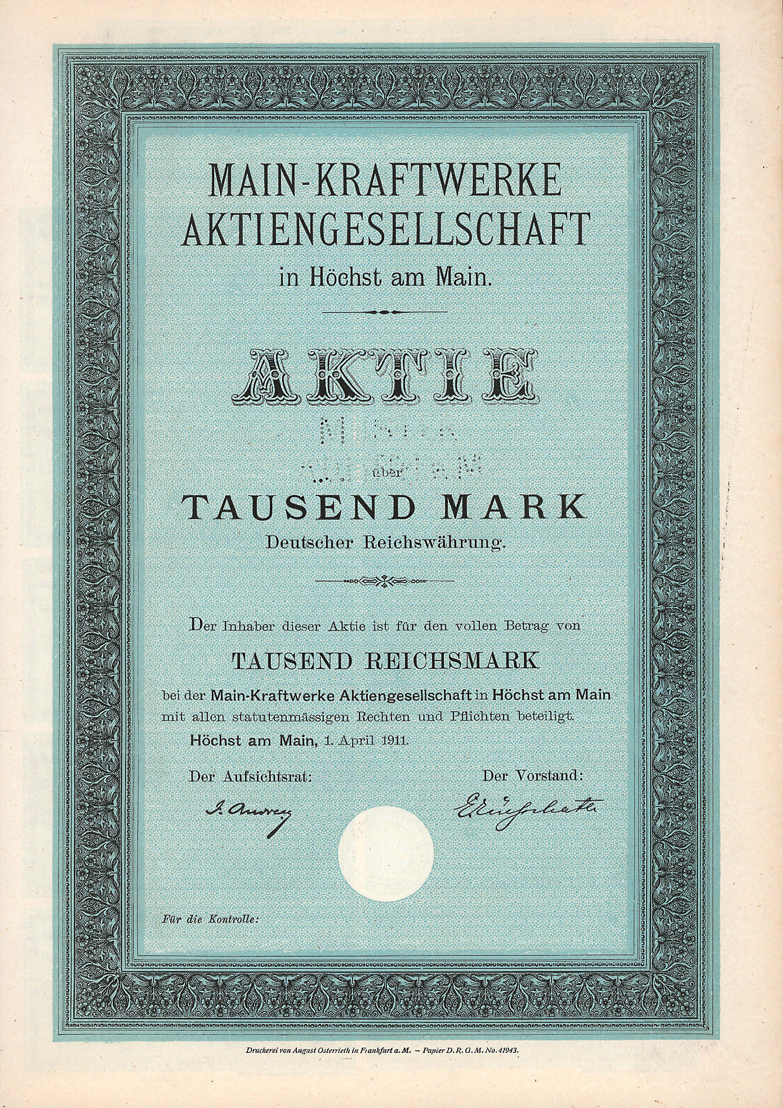 Share of the Main-Kraftwerke AG, issued 1. April 1911